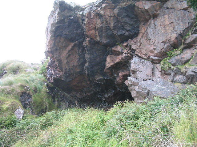 Cave at Bagh na h-Uamha. Bagh na h-Uamha is Gaelic for 'Bay of the Cave'. The cave is formed by an overhanging rock about 10m above the shore. Viking artefacts including shell playing pieces have been found there and there are still the visible remains of a shell midden.